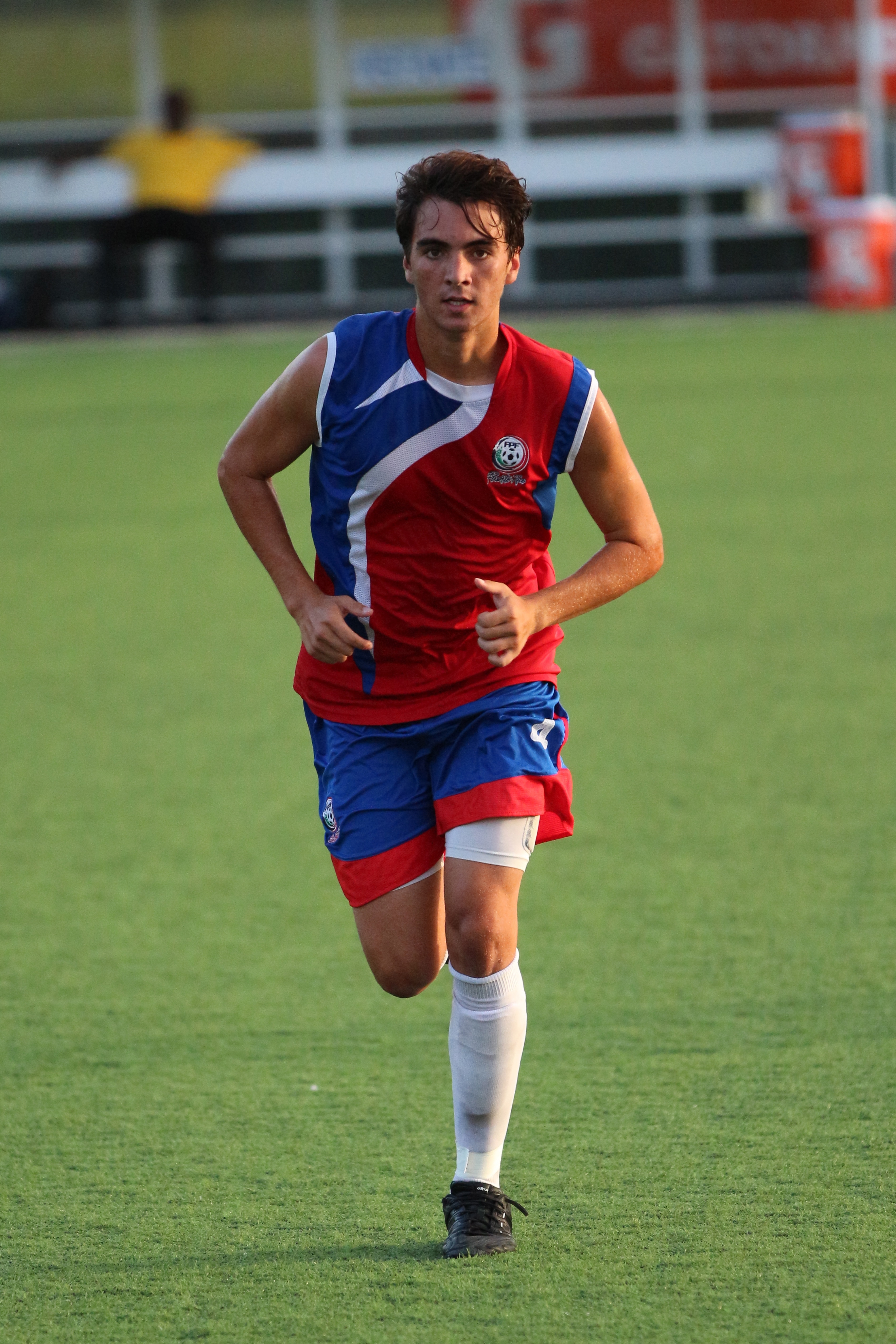 Photo of Emilio Cordero, part of the PR National U20 Team